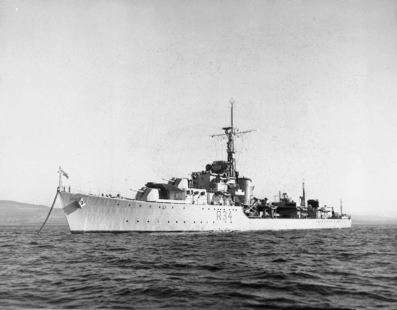 The Royal Navy destroyer HMS Cockade (R34) secured to a buoy in the Clyde, 28 September 1945.